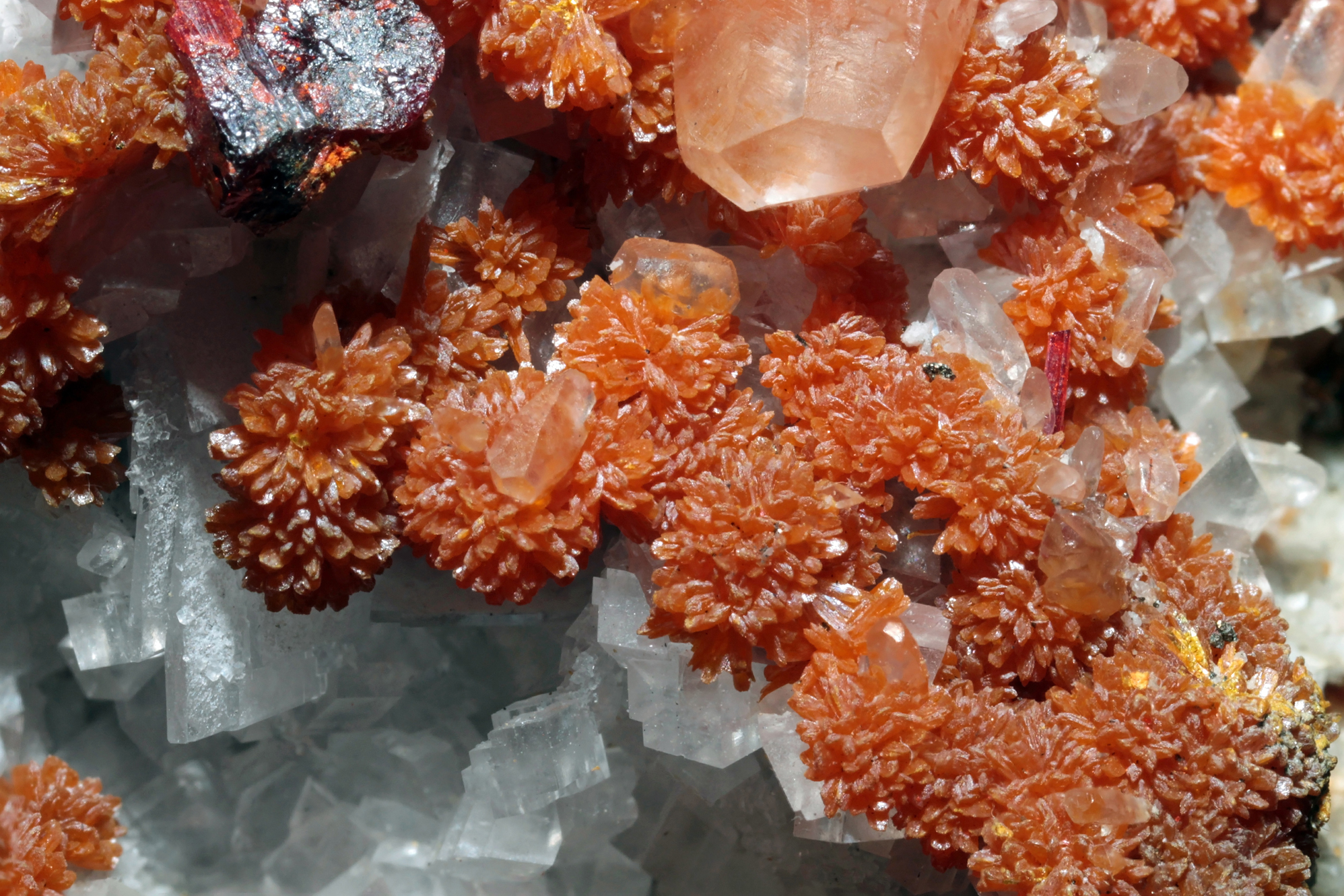 orpiment, realgar, baryte, calciite : Quiruvilca Mine, Distrito Quiruvilca, Departamento La Libertad, Perù